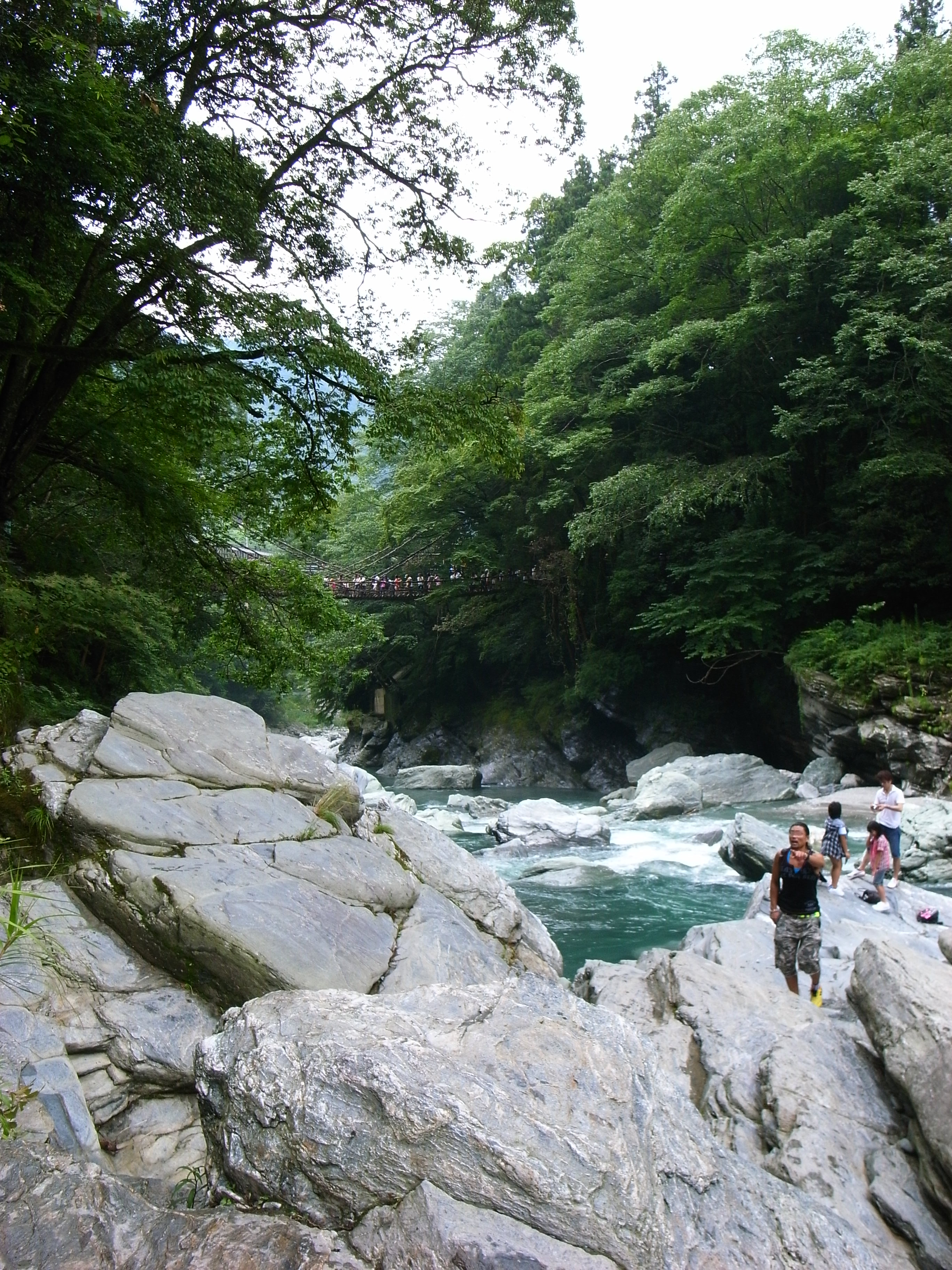 Iya Valley. Ricoh GR Digital II